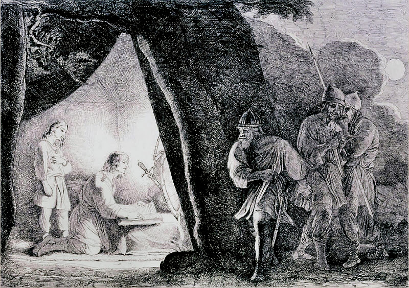 Death of ancient Russian knyaz Boris.